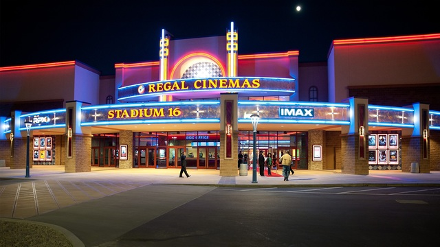 A picture of the new Regal Cinemas at Winrock Town Center during nighttime.